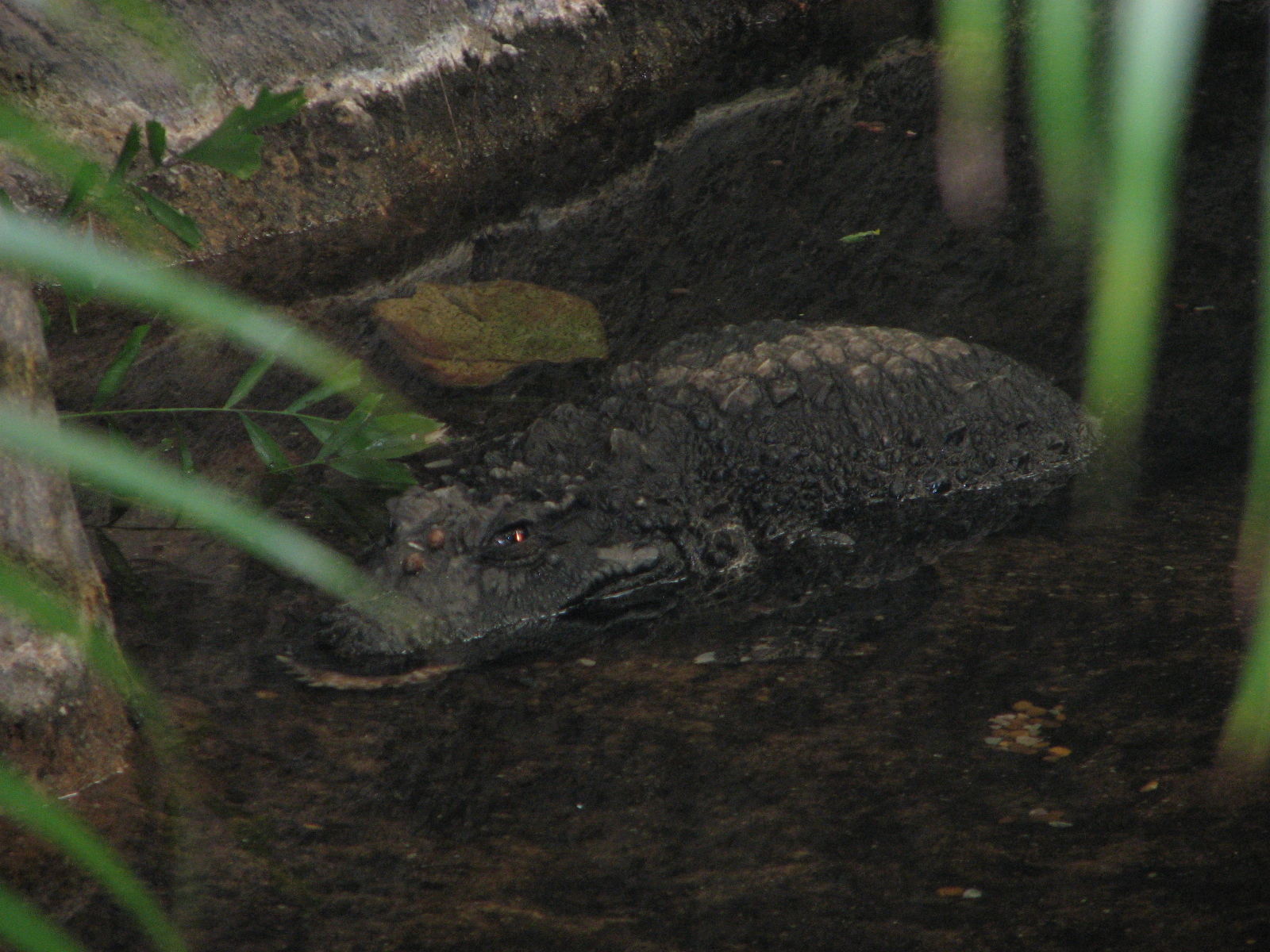 Dwarf Crocodile at North Carolina Zoo